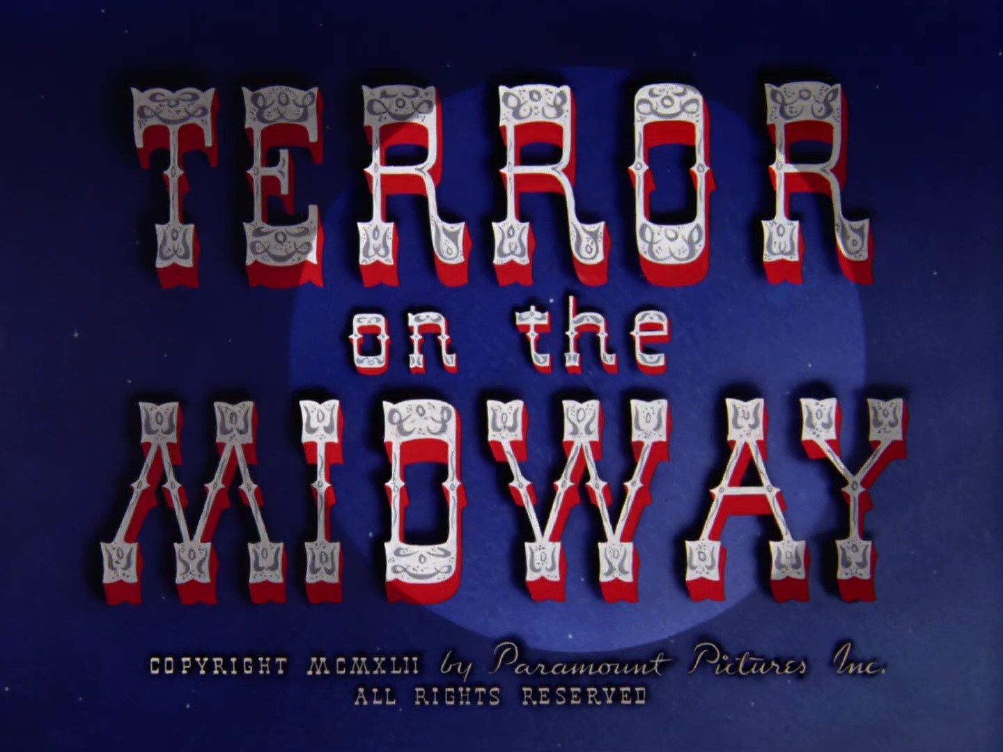 Screenshot of the animated short Terror on the Midway.